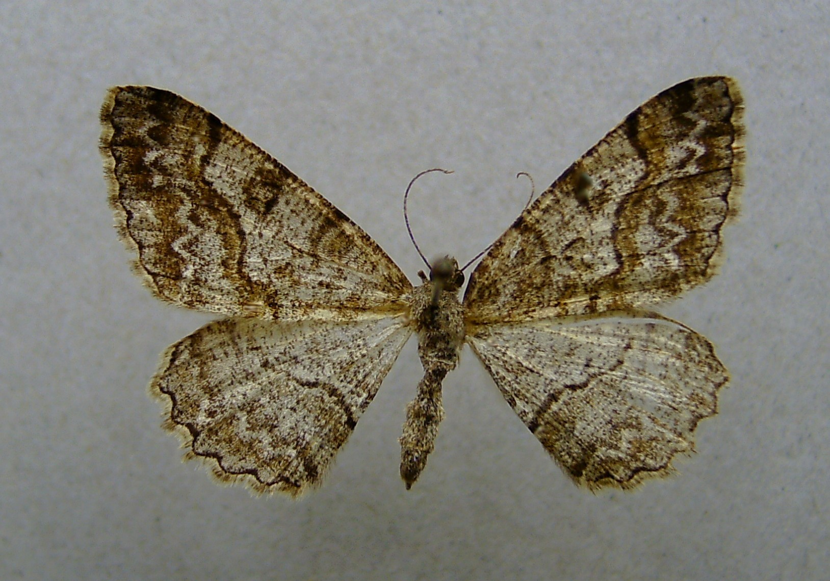 Alcis repandata, Oberwössen, Bavaria, Germany